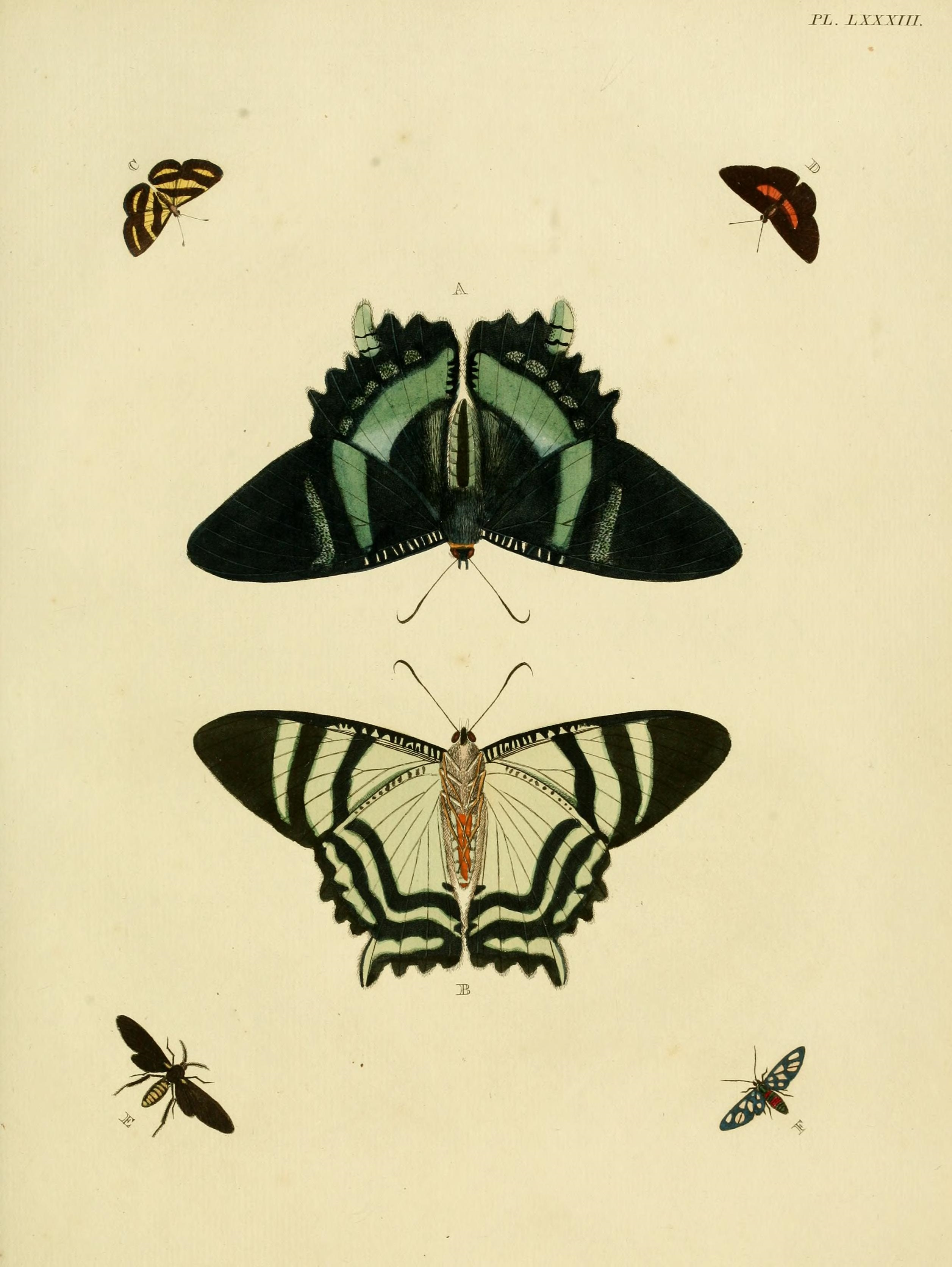 Plate LXXXIII A, B: "(Papilio) Orontes" ( = Alcides orontes), see Funet C: "(Papilio) Hisbon" ( = Baeotis hisbon, iconotype?), see Funet D: "(Papilio) Sagaris" ( = Pirascca sagaris, iconotype?), see Funet E: "(Sphinx) Lades" ( = Macrocneme lades, iconotype?), see Funet F: "(Sphinx) Cerbera" ( = Amata cerbera), see Funet